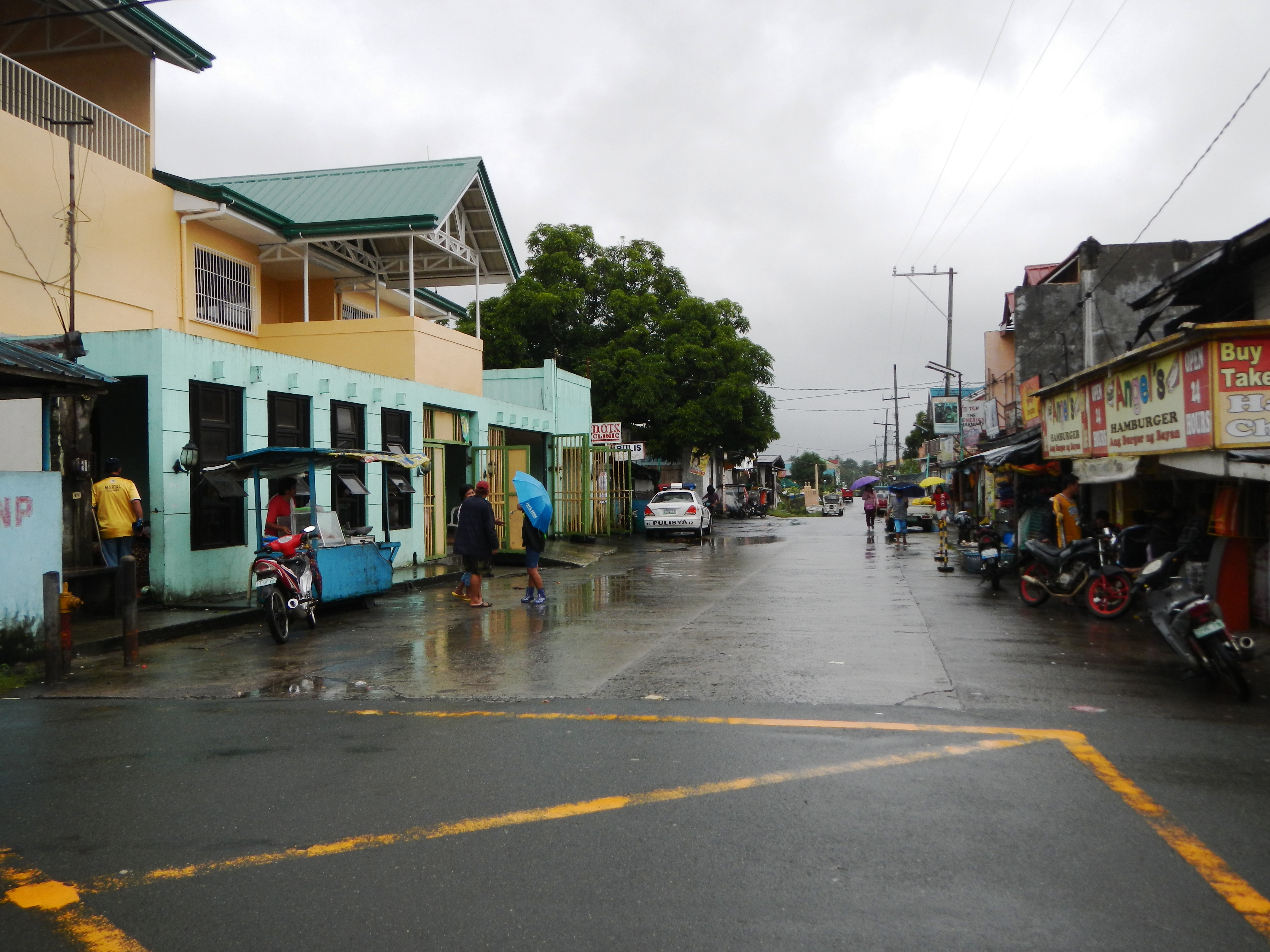 Upload Wizard -- (general description of landmarks, town, church, bad weather, going to dark, sunset conditions) - of - General Emilio Aguinaldo, Cavite[1] - Bailen bridge and river,new Angel's Hamburger main office building, transferred here from Marikina, Rizal, Magallanes st.,Welcome Arch, Barangay Poblacion 4, Tricycle stop, terminal, station, Covered Court, Basketball Court, Bailen Fire station, Bailen Municipal Hall, Women's Club, Nakagea, 1994, Bailen Western Cavite Institute marker, General Emilio Aguinaldo statue, downtown, centro, commercial center surrounding the Bailen Town Hall and St. Joseph Parish Church of General Aguinaldo (Vicariate of The Seven Archangels (Tagaytay City/Mendez/Indang/Alfonso/General Aguinaldo) Vicar Forane: Rev Fr. Luisito C. Gatdula Vicarial Representative: Rev. Fr. Hermenegildo M. Asilo - (belongs to the Roman Catholic Diocese of Imus [2][3] [4] [5] [6] [7] [8]) - General Emilio Aguinaldo, Cavite[9] (formerly Bailen, now renamed again to Bailen, subject to Ratification of the Law, is a municipality in the province of Cavite, [10] Philippines; 2010 census, population of 17,507 people, fifth class, named after Emilio Aguinaldo[11], the president of the First Philippine Republic; changed its name to Bailen after the Sangguniang Panlalawigan approved Committee Report 118-2012 last September 3, 2012, however yet to be ratified ;politically subdivided into 14 barangays 4 urban, 10 rural).[12] Geographical location: Cavite, Region 4, Philippines, Asia Geographical coordinates: 14° 11' 3" North, 120° 47' 45" East [13] [14] [15] Coordinates: 14°10'45"N 120°48'23"E [16]).